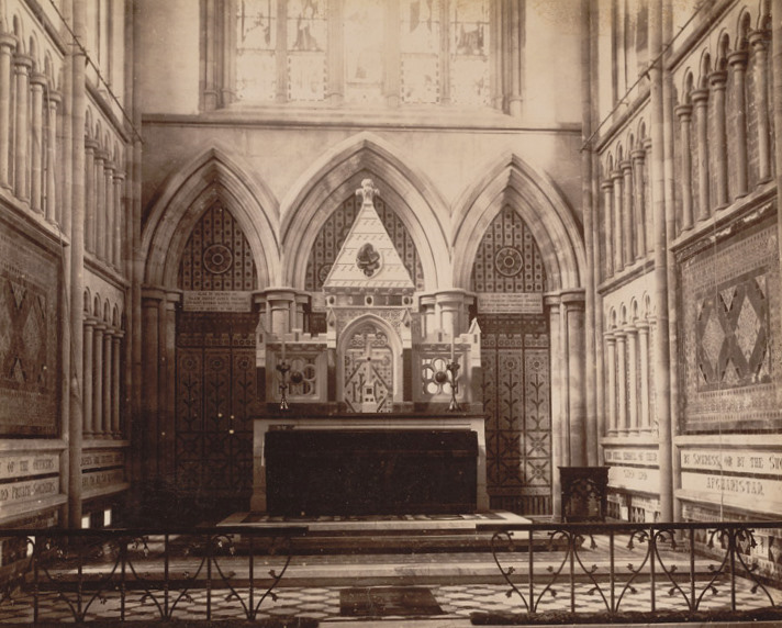 Afghan Church, Colaba, Interior view, c.1880-90. Bombay (Mumbai). Church designed by the town engineer, Henry Conybeare and completed by Captain Tremenheere between 1847 and 1858.